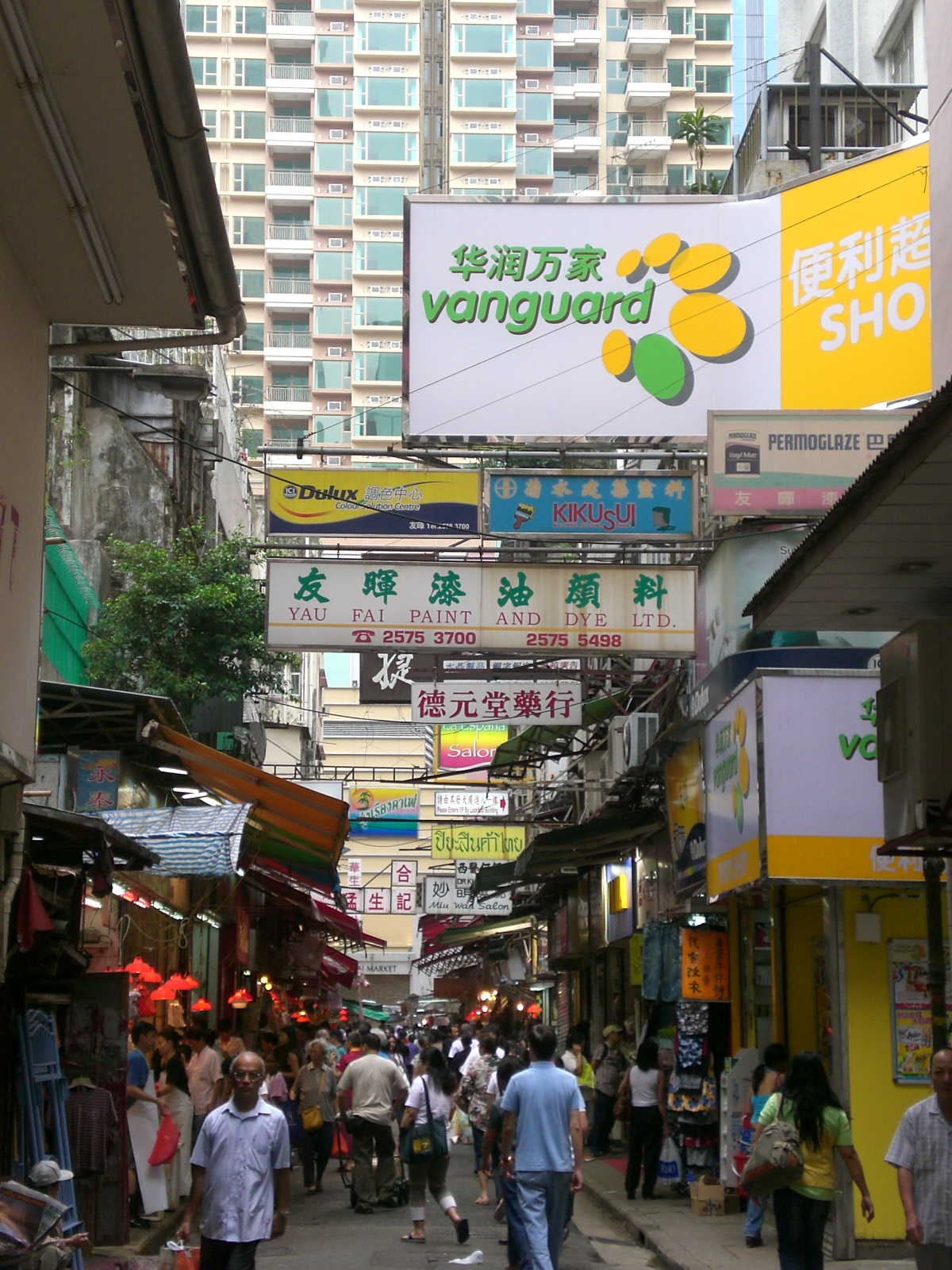 華潤萬家超級市場 在 石水渠街 灣仔舊區街道 Wanchai old streets, Hong Kong. (A1 Wong East). A China Resources Vanguard shop in the Stone Nullah Lane, Wanchai, Hong Kong